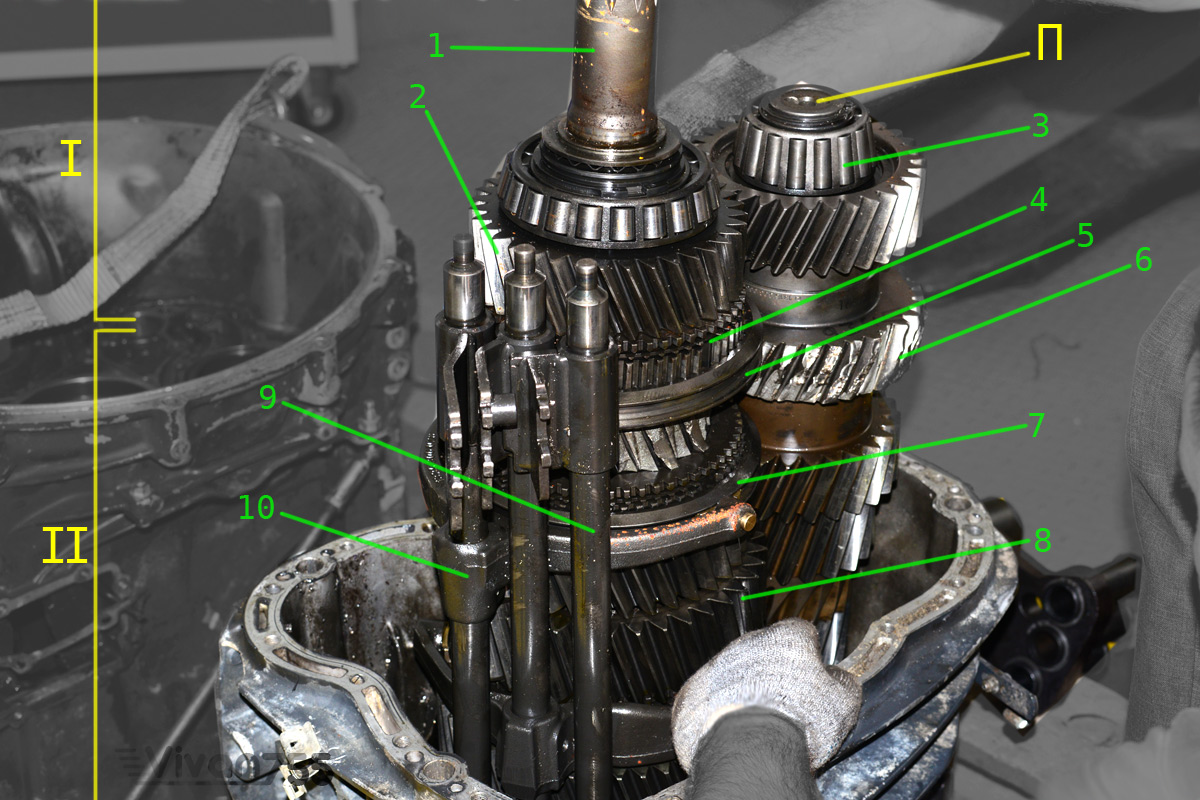 Gearbox ZF 16S181 with opened transmission housing. I — input shaft, II — main shaft, П — countershaft, 1 — input shaft, 2 — splitter high gear wheel, 3 — bearing, 4 — splitter syncronizer, 5 — splitter sliding sleeve, 6 — IV gear wheel (broken), 7 — III - IV gears sliding sleeve, 8 — II gear driven wheel, 9 — rear gear shift rail, 10 — III - IV gears shift rail